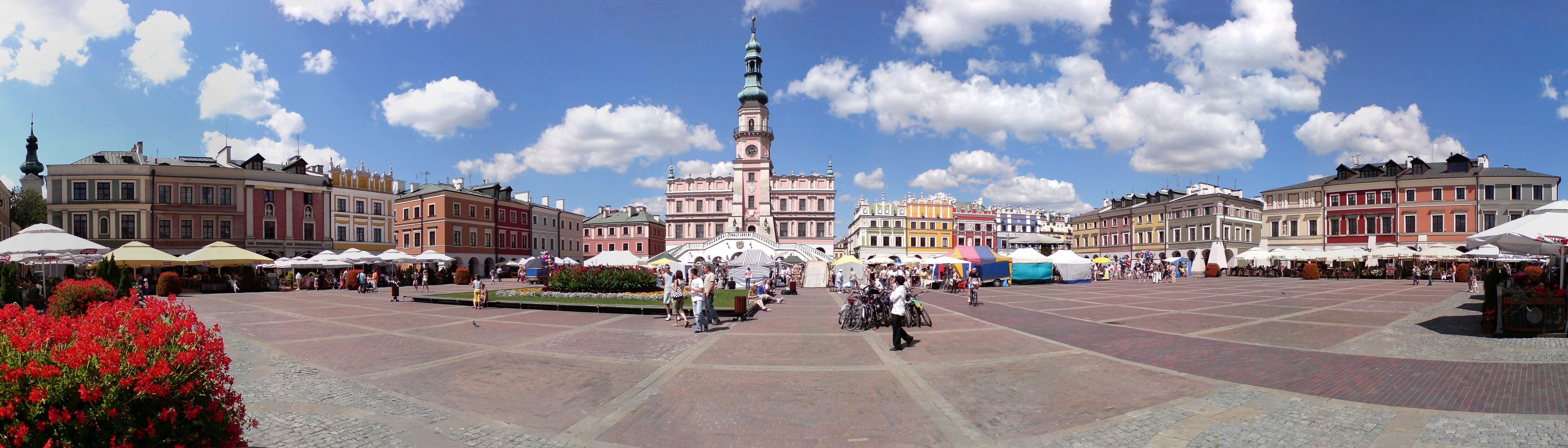 Great market in Zamosc. Panorama created by stitching 7 photos with Hugin, photos taken using SE k800i mobile phone.